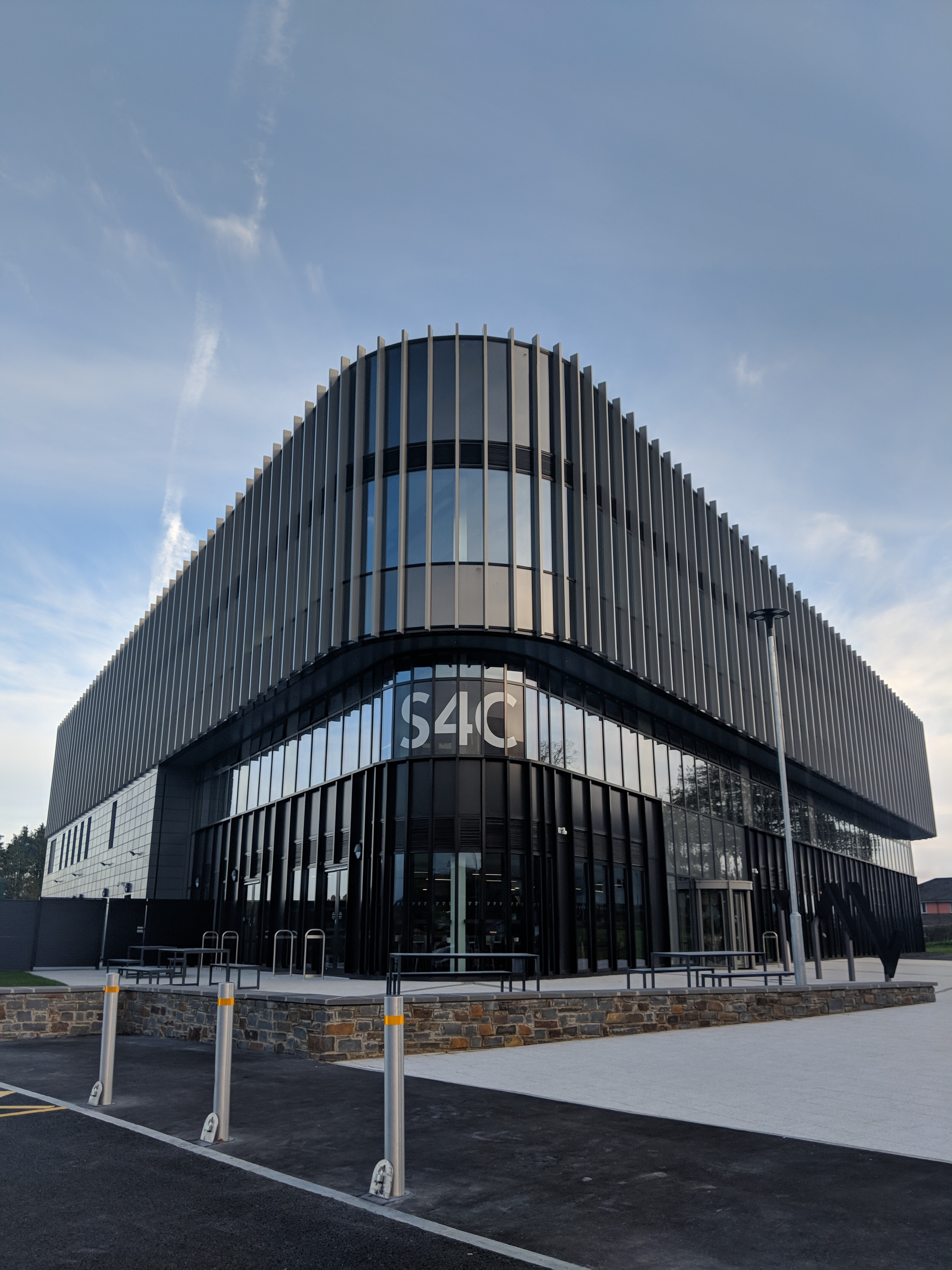 Canolfan S4C Yr Egin - S4C's headquarters in Carmarthen. Located on the campus of the University of Wales Trinity Saint David's. It is also the home to several media and technology businesses.